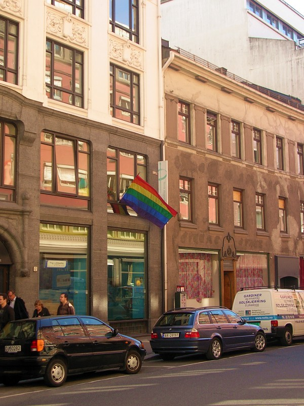 Bureau of Landsforeningen for lesbisk og homofil frigjøring – Kongens gate 12 in Oslo